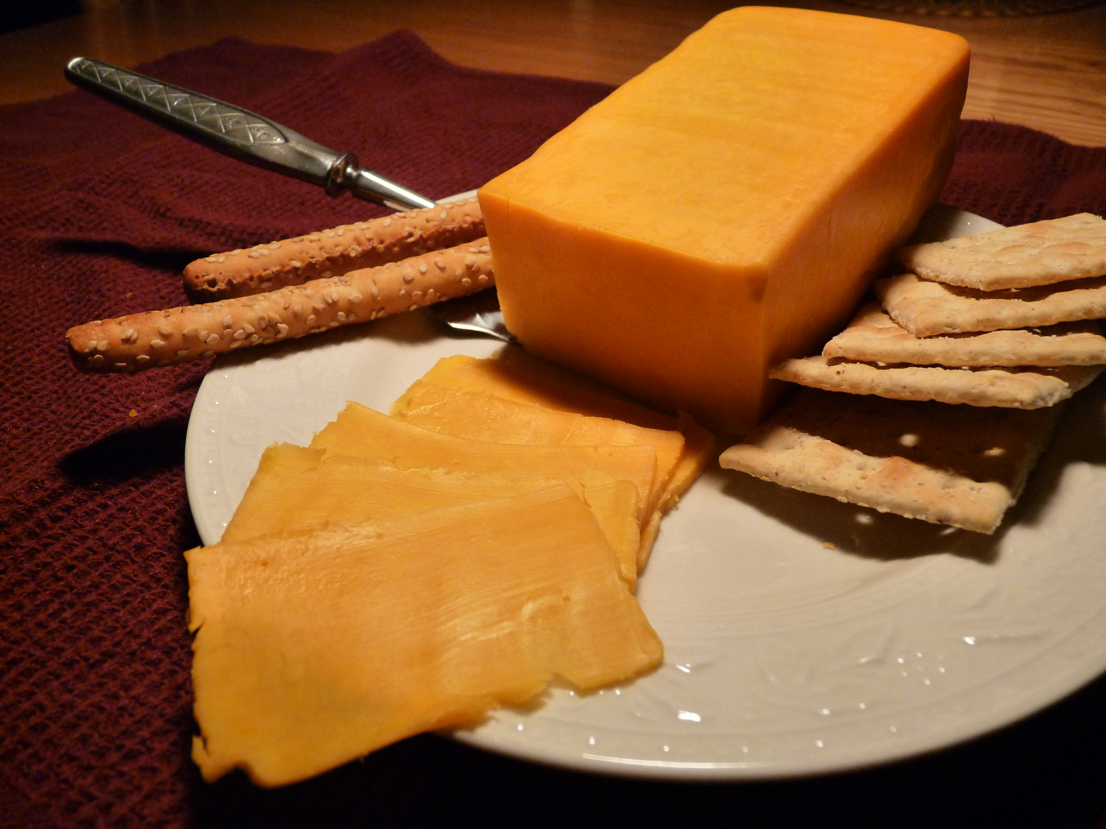 Colby cheese, with crackers.